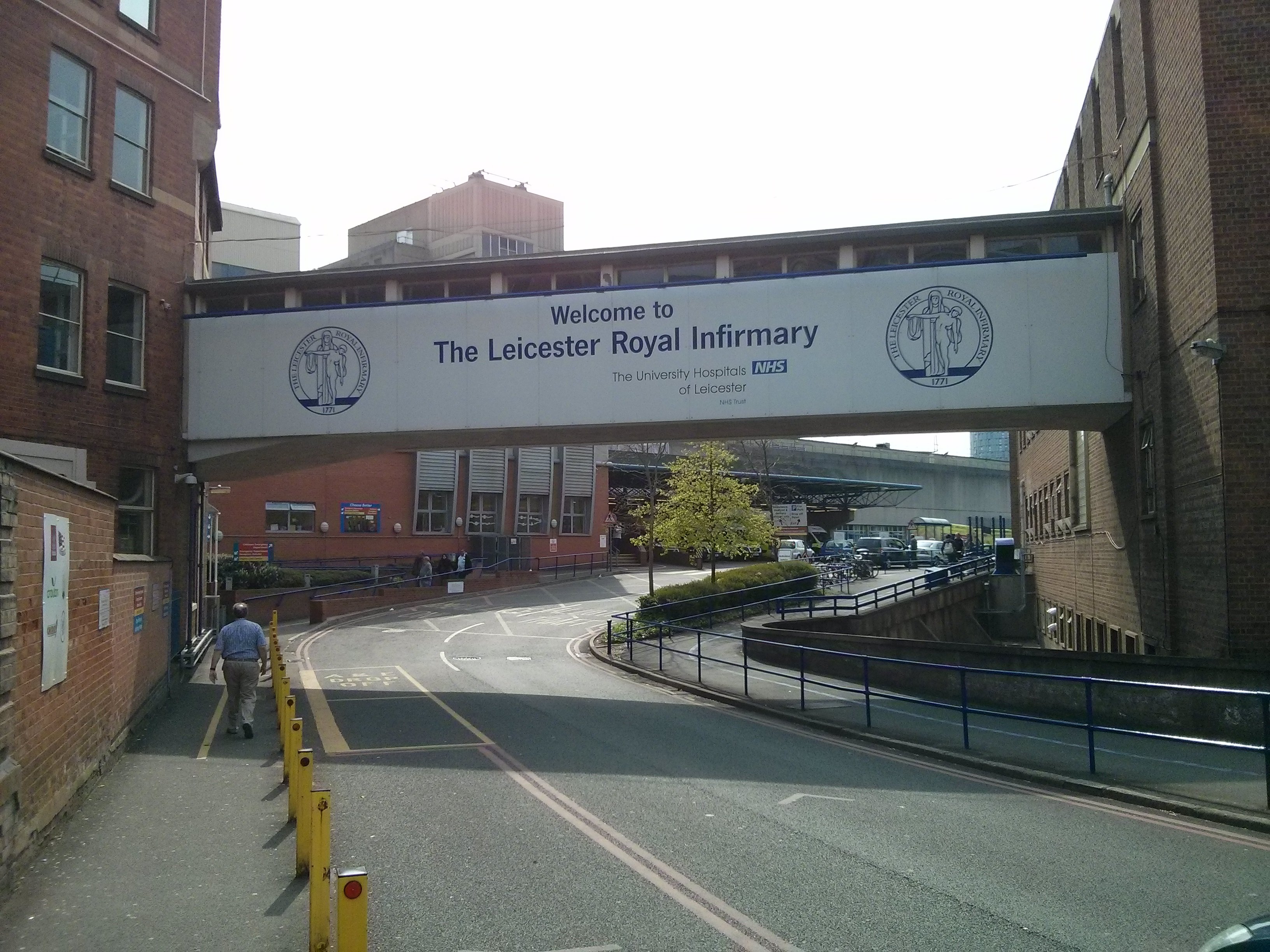 Leicester Royal Infirmary